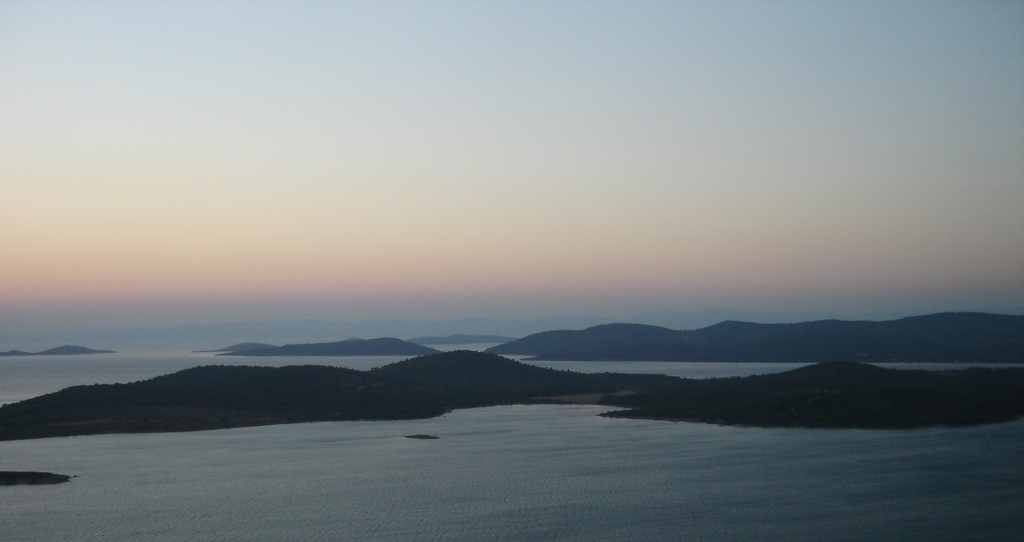 Small islands in the Aegean, near Ayvalik